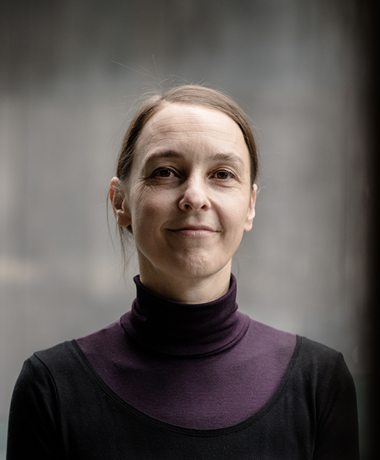 Filmmaker and media artist Lotte Schreiber.